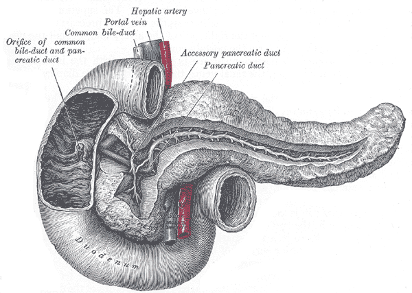 The pancreatic duct.